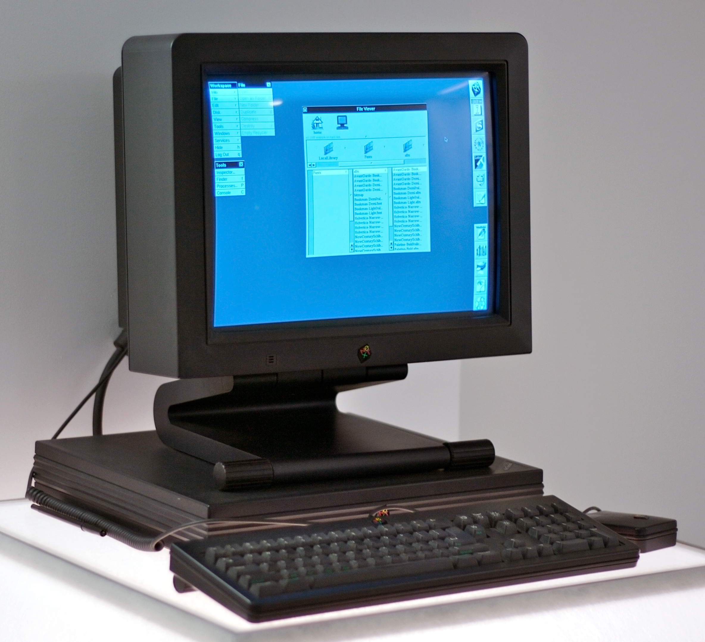 NeXTstation, Google NY office computer museum